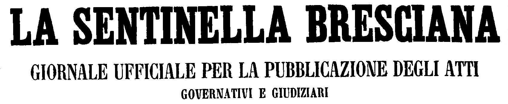 Nameplate of «La Sentinella Bresciana» from 16th April 1861 edition